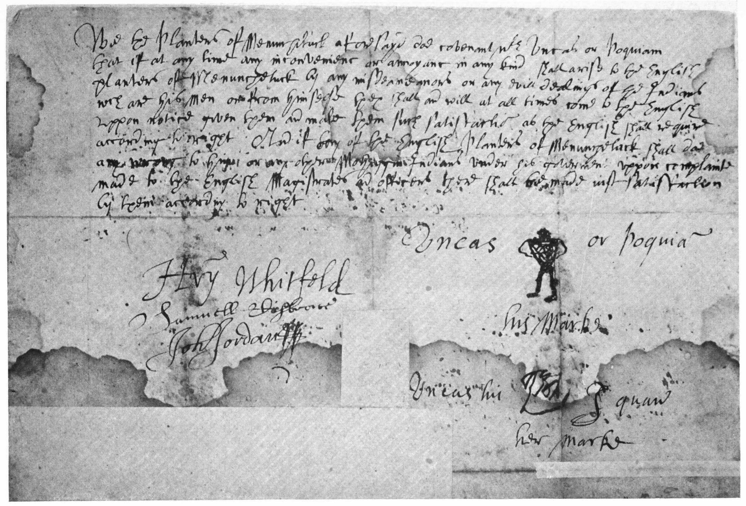 Document Signed by Uncas and His Squaw. From Wikisource:The Founding of New England, by James Truslow Adams